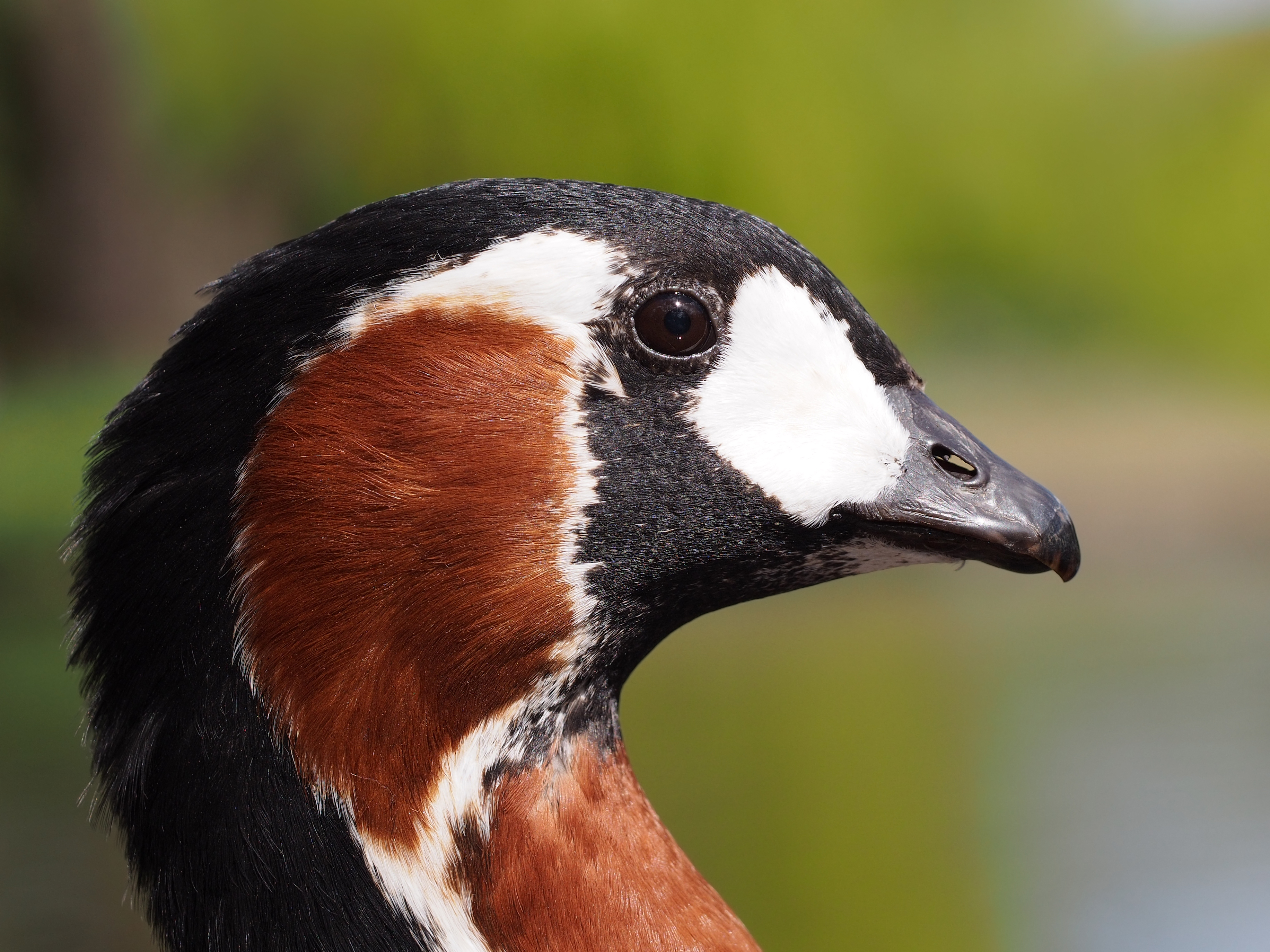 Red Breasted Goose, Branta ruficollis, at Martin Mere